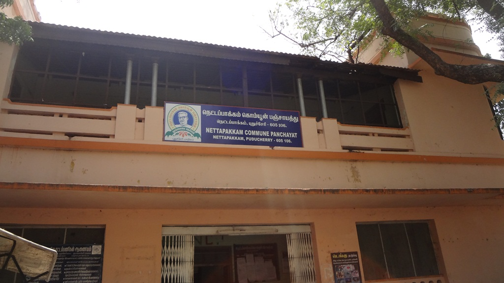 Nettapakkam Commune Building